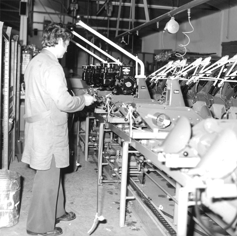 Series production engine mower t75